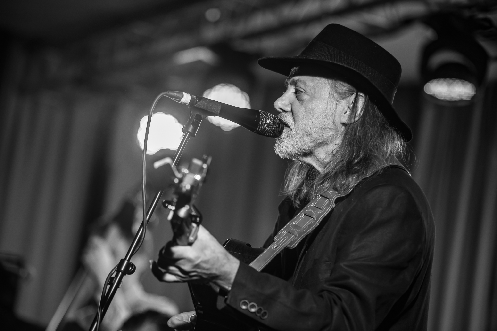 Singer/songwriter Lillebjørn Nilsen performing during the Norwegian music festival Canal Street, Arendal, July 2015.